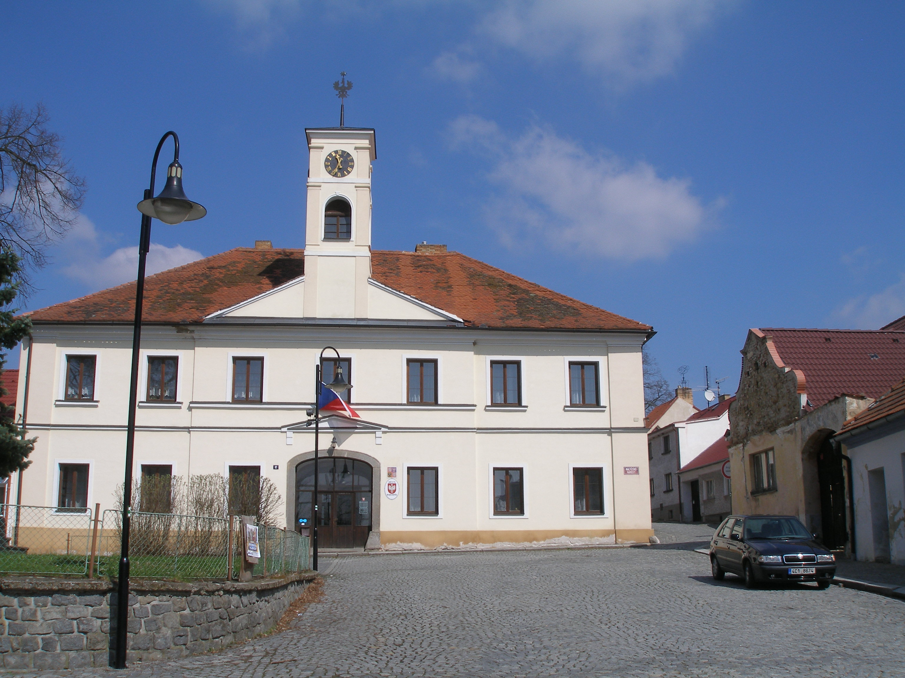 Town hall, Radomyšl